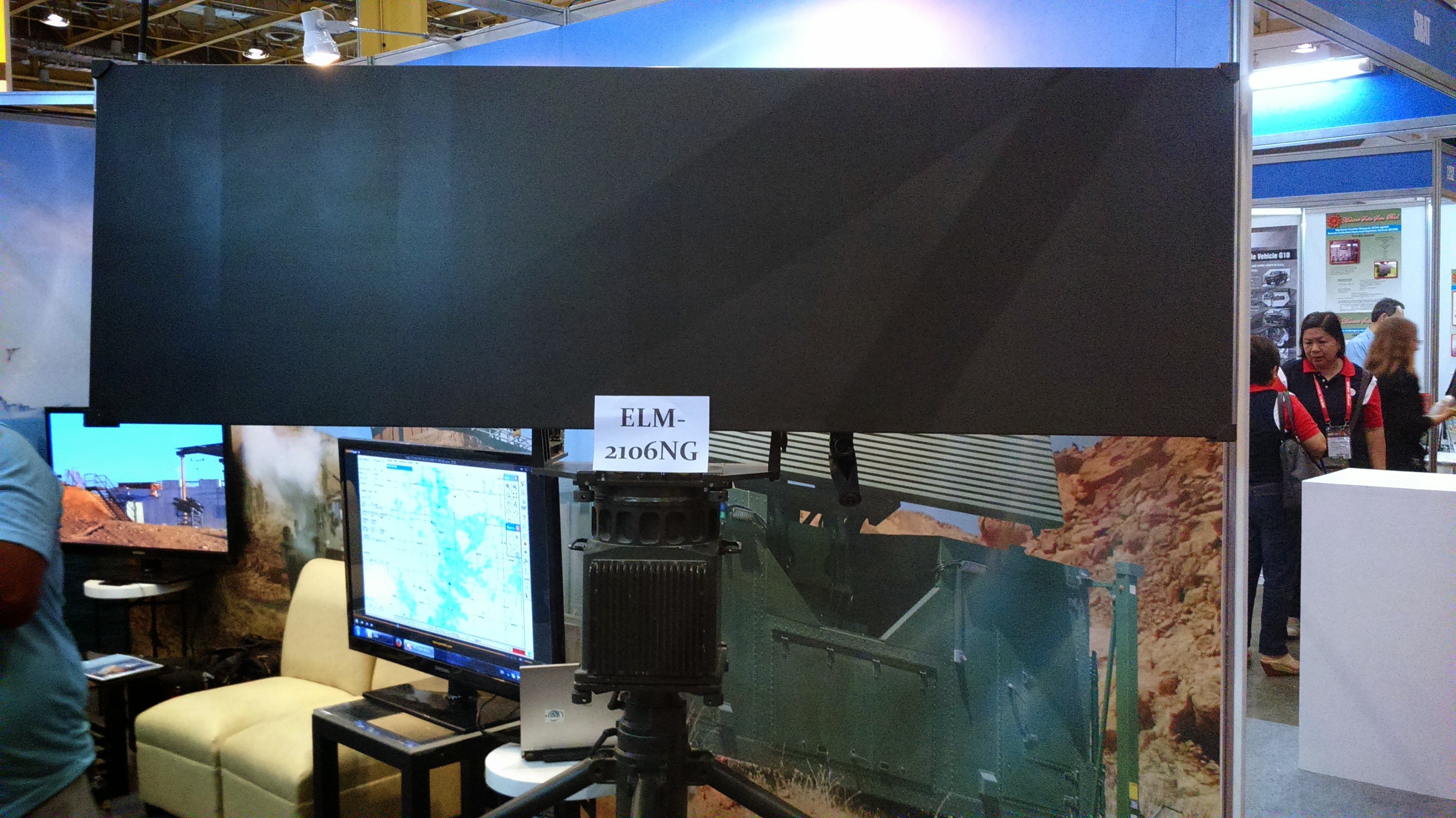 A mockup of Elta's ELM-2016NG Radar, taken during the ADAS 2014 Exhibit at the World Trade Center in Pasay, Manila, Philippines. It is a 3 dimensions mobile military Tactical Air Defense radar